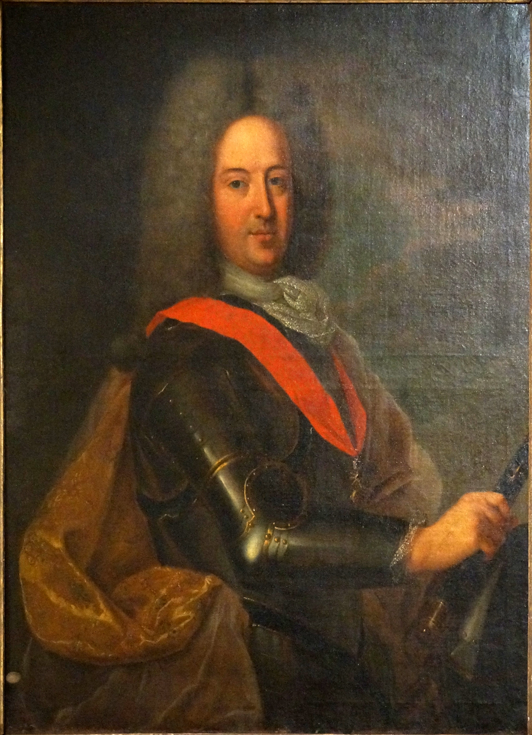 Portrait of Leopold, Duke of Lorraine (1679-1729)